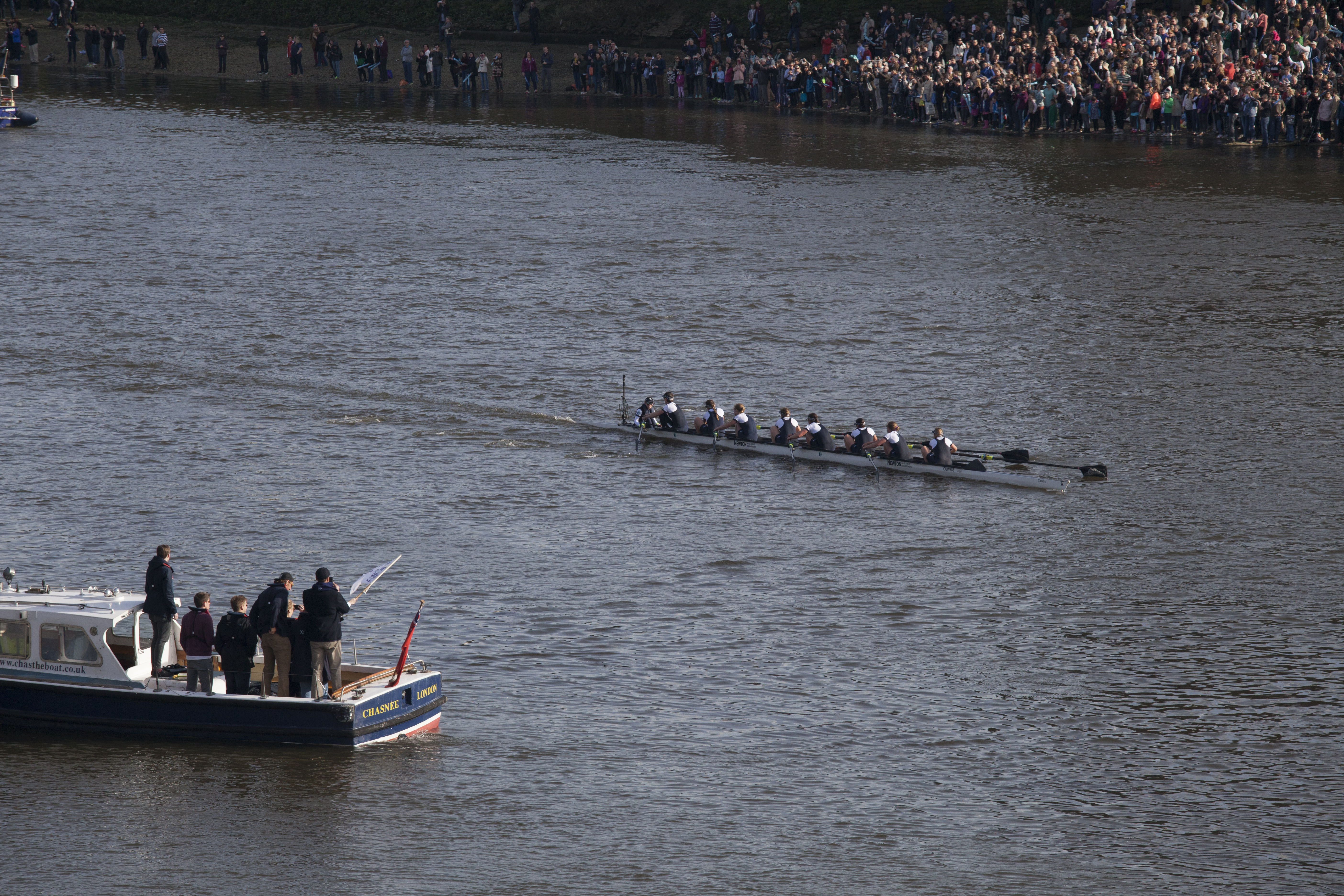 Image of Oxford & Cambridge Boat Race 2015, illustrating Oxford Women's VIII approaching the finish, seen from the North (Middlesex) end of Chiswick Bridge.